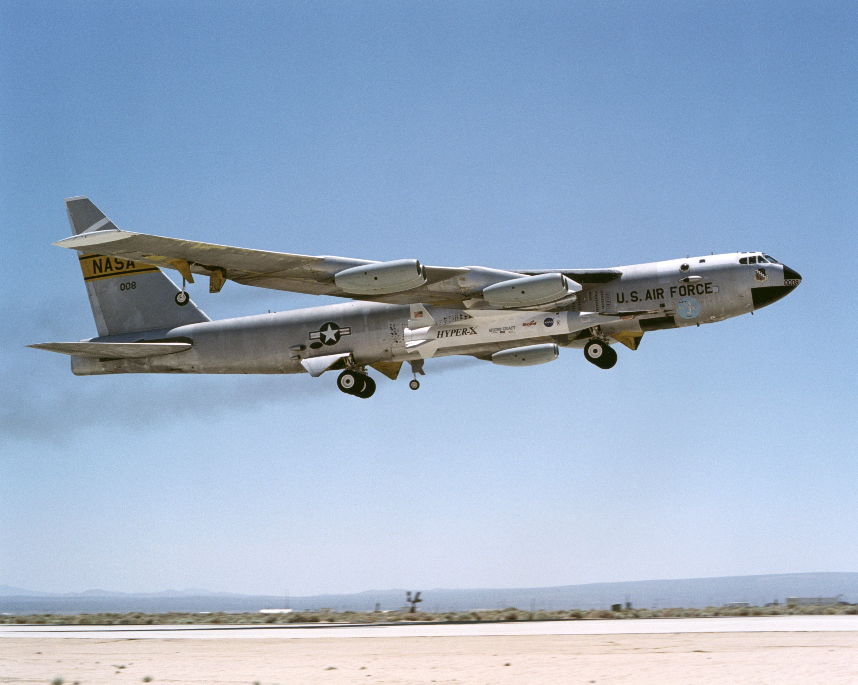 The first X-43A hypersonic research aircraft and its modified Pegasus booster rocket were carried aloft by NASA's NB-52B carrier aircraft from Dryden Flight Research Center at Edwards Air Force Base, Calif., on June 2, 2001 for the first of three high-speed free flight attempts. About an hour and 15 minutes later the Pegasus booster was released from the B-52 to accelerate the X-43A to its intended speed of Mach 7. Before this could be achieved, the combined Pegasus and X-43A "stack" lost control about eight seconds after ignition of the Pegasus rocket motor. The mission was terminated and explosive charges ensured the Pegasus and X-43A fell into the Pacific Ocean in a cleared Navy range area. A NASA investigation board is being assembled to determine the cause of the incident. Work continues on two other X-43A vehicles, the first of which could fly by late 2001. Central to the X-43A program is its integration of an air-breathing "scramjet" engine that could enable a variety of high-speed aerospace craft, and promote cost-effective access to space. The 12-foot, unpiloted research vehicle was developed and built for NASA by MicroCraft Inc., Tullahoma, Tenn. The booster was built by Orbital Sciences Corp. at Chandler, Ariz. The X-43A flights are the first actual flight tests of an aircraft powered by a scramjet engine capable of operating at hypersonic speeds (above Mach 5, or five times the speed of sound). Some 90 minutes after takeoff, the Pegasus will launch from a B-52, rocketing the X-43A to Mach 7 at 95,000 feet altitude, or Mach 10 at 105,000 feet altitude. The X-43A will be powered by its revolutionary air-breathing supersonic-combustion ramjet or "scramjet" engine. The X-43A will then fly a pre-programmed trajectory, conducting aerodynamic and propulsion experiments as it descends until it splashes into the Pacific Ocean. NASA Identifier: NIX-EC01-0182-01